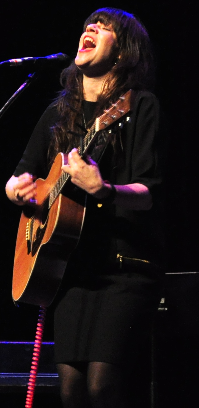 Shelby Earl, a singer from Seattle, Washington, USA, performing at the Pantages Theatre, Tacoma, Washington as part of First Night Tacoma.